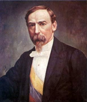 Oil painting of Carlos Holguín Mallarino, President of Colombia. Located at the National Museum of Colombia.